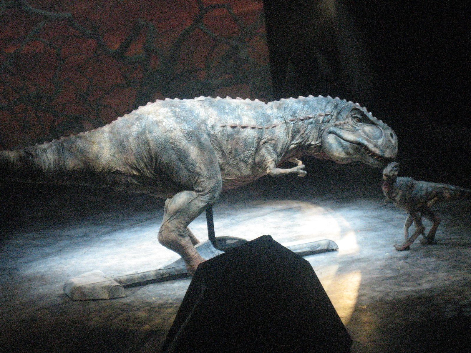 Walking with Dinosaurs - The Live Experience